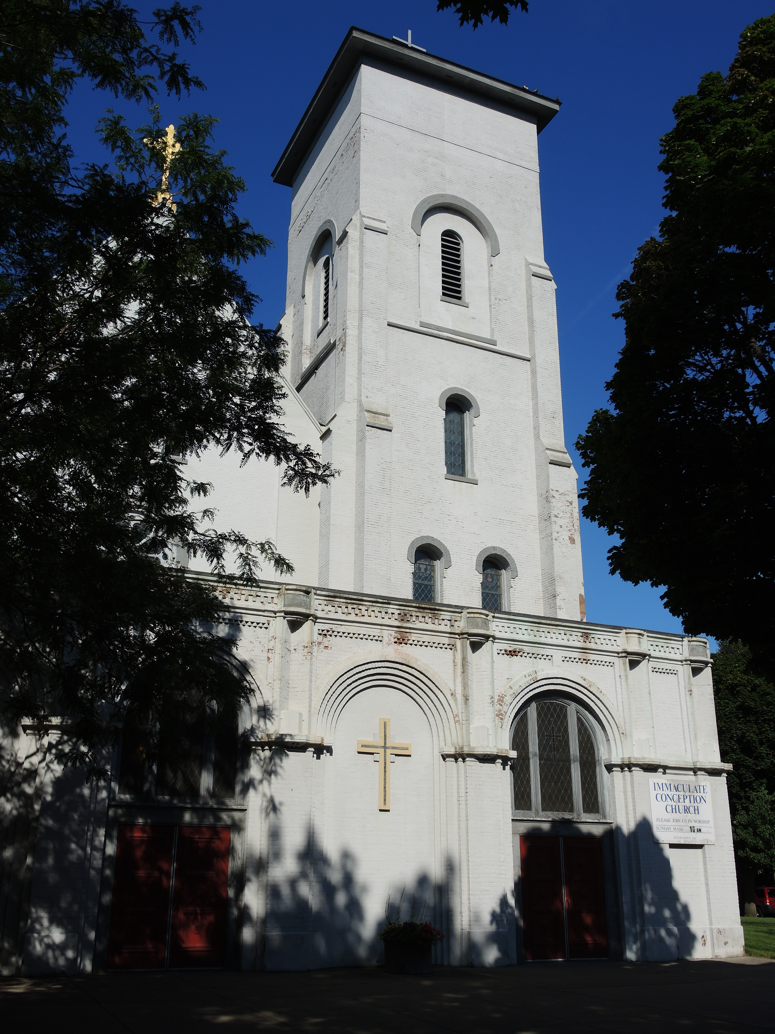 Front view of the Immaculate Conception Church in Rochester, New York